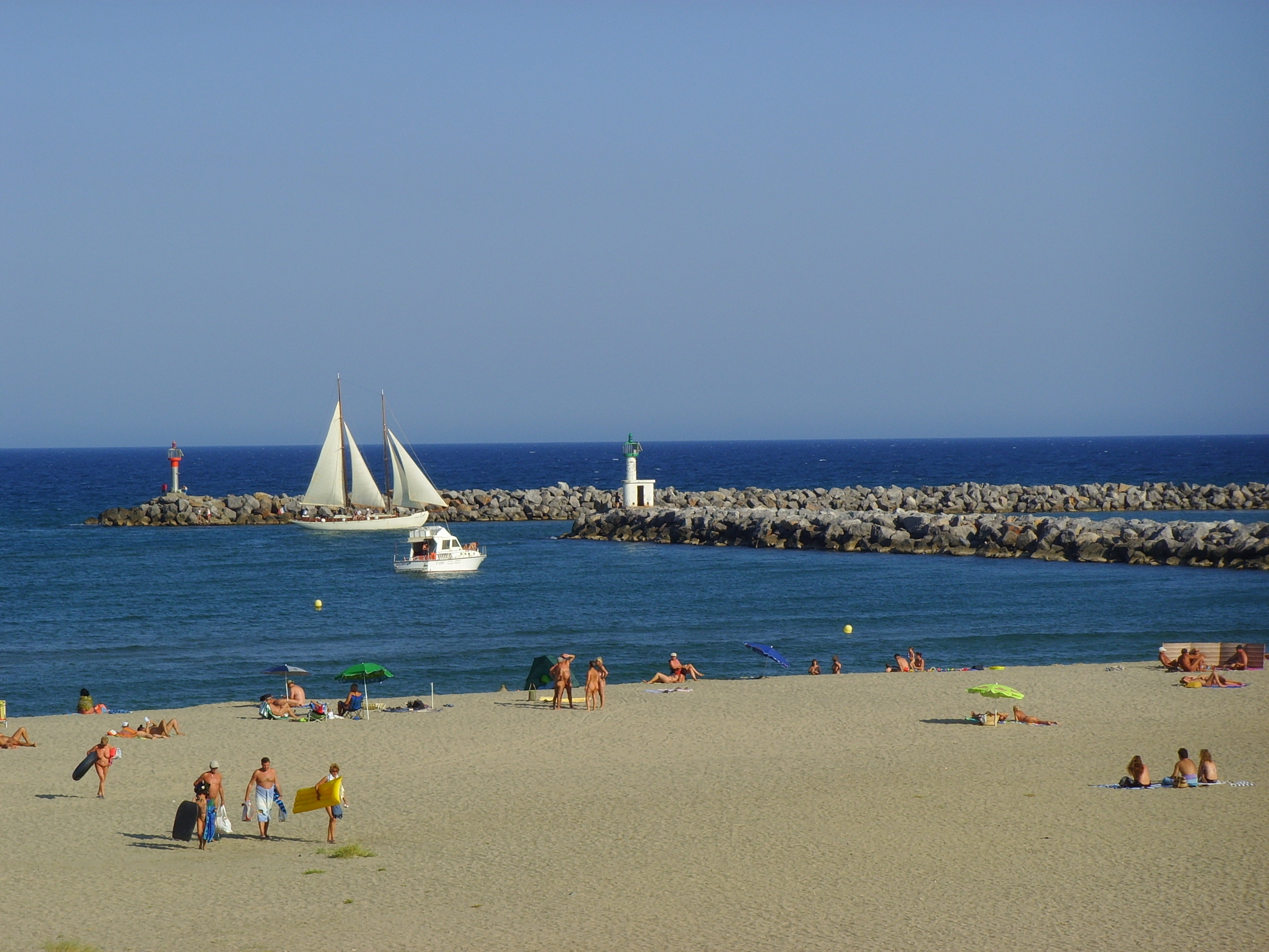 Port Leucate, Aude, France, Les villages naturistes: naturist beach in front of Club Oasis